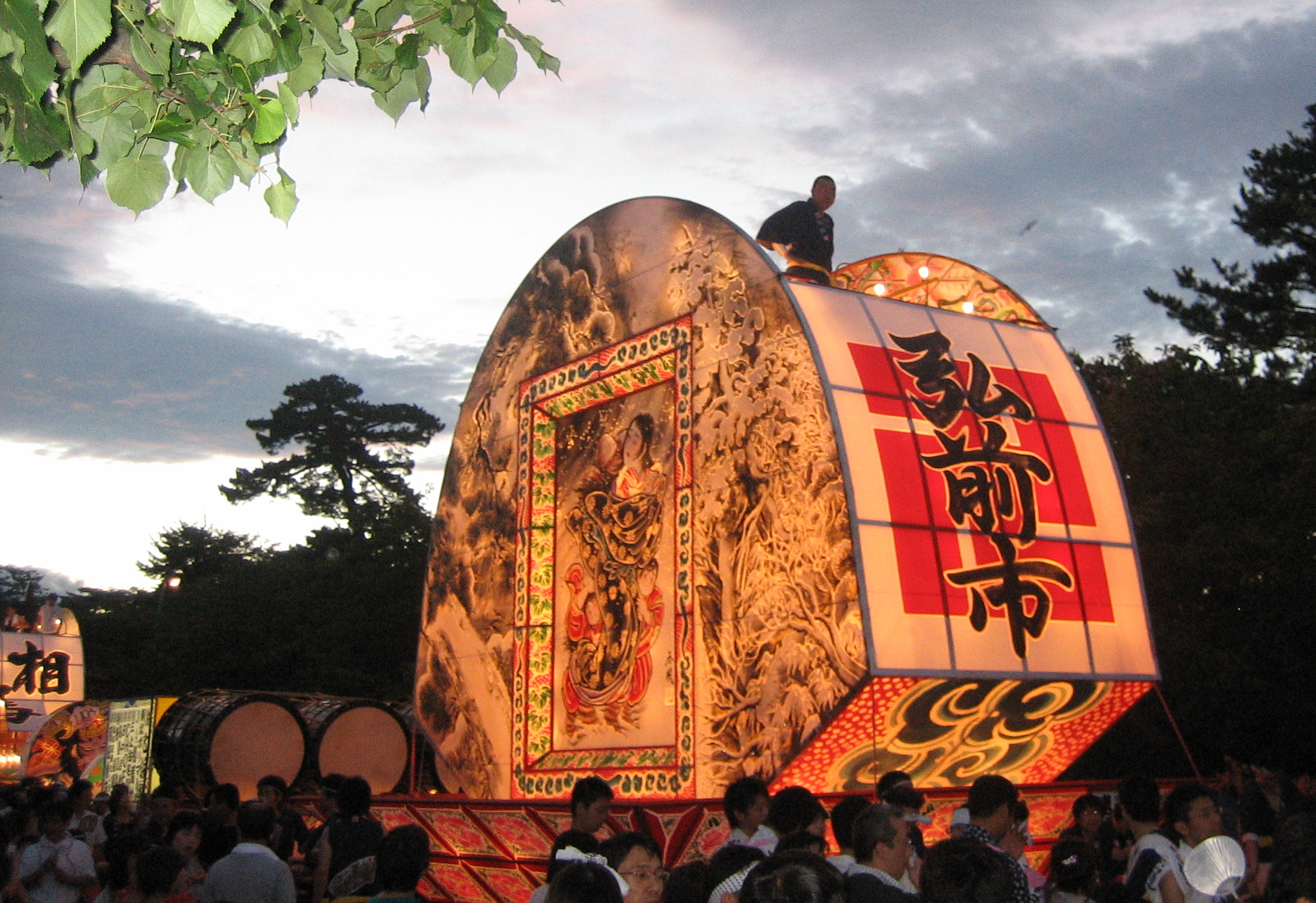 The floats are lit from within. It gives the whole experience a magical feel. They're big enough they have dudes up top to help steer, and they also usually have attendants with bamboo poles to prop up the power lines! You can see the group of people, directly below and in front of the float, that will be hauling it through downtown Hirosaki. (original text)